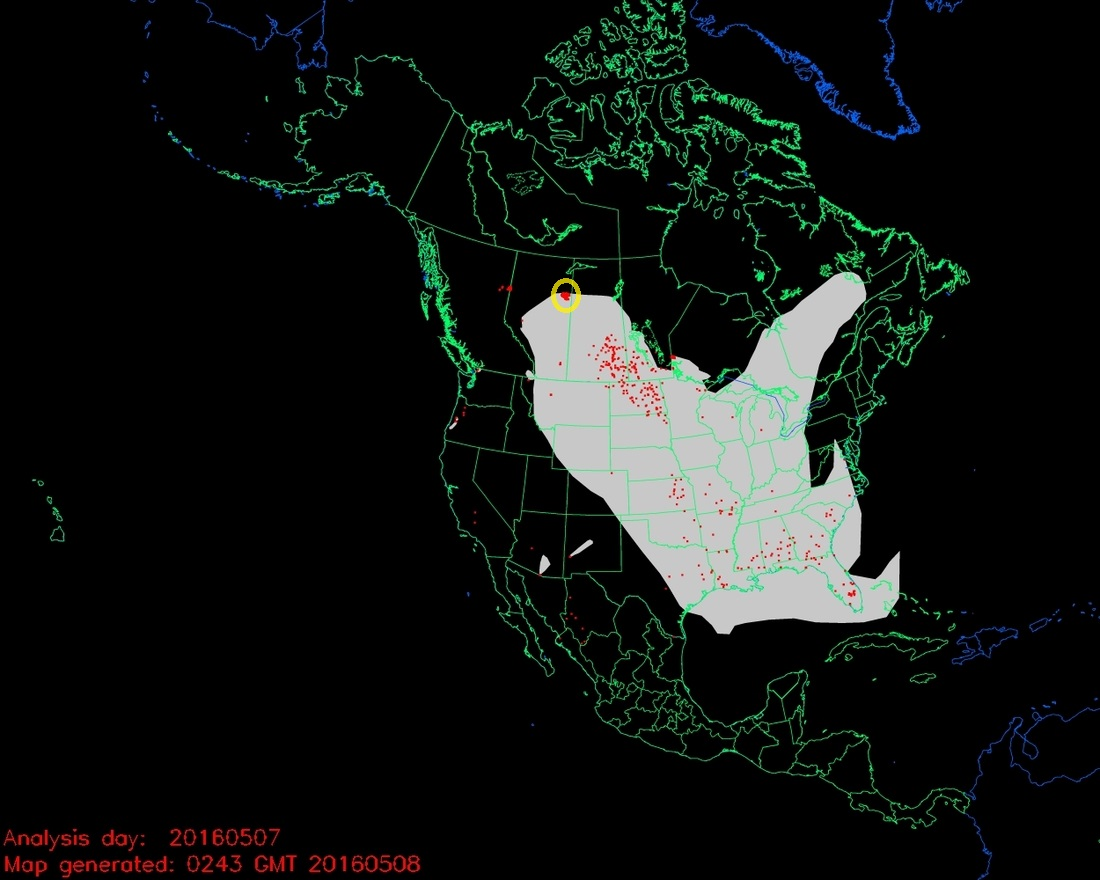 Smoke from the fires in Alberta, primarily the 210,000-acre blaze near Fort McMurray, is affecting Saskatchewan, Manitoba, the north-central United States, and many areas in the eastern U.S. The map above was generated at 19:45 p.m. MDT May 7, 2015. Added yellow circle to emphasize a location on map, small red dots are fires burning.